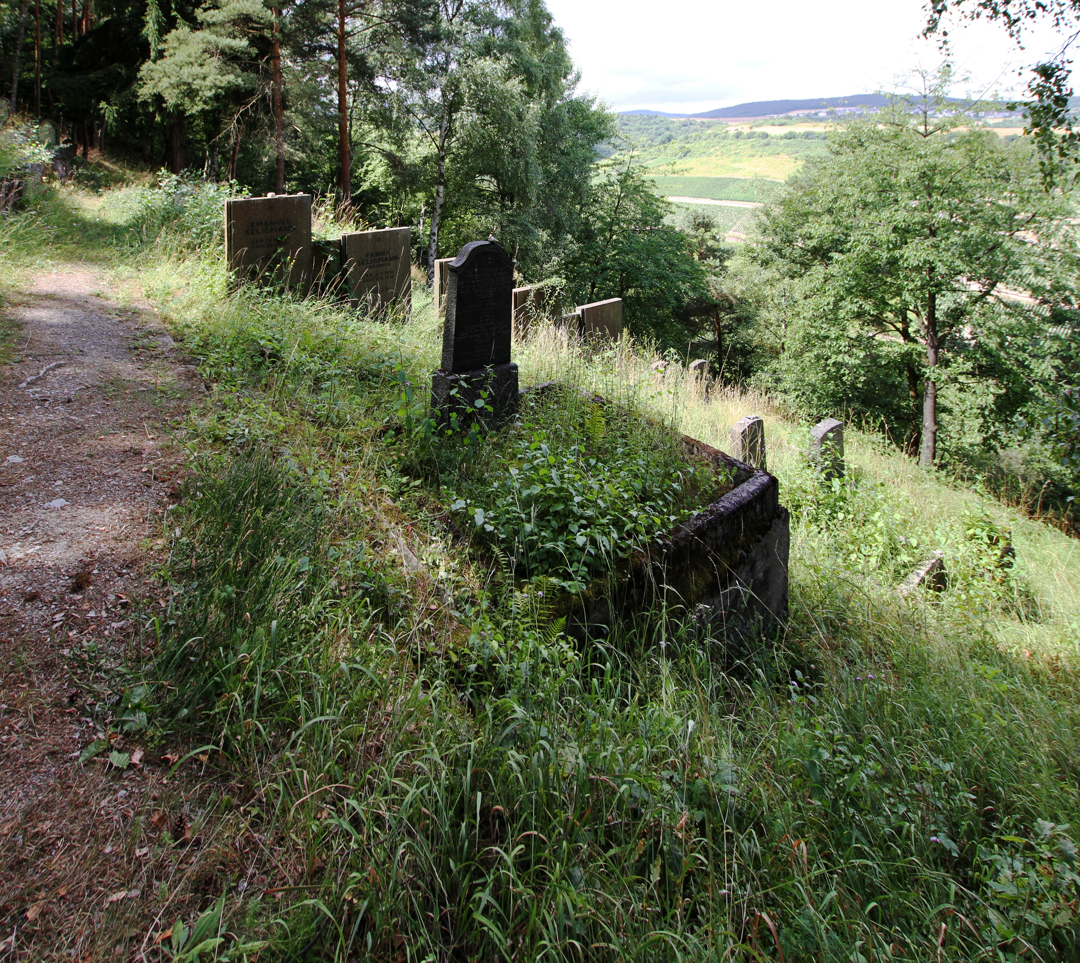 Jewish cemetery Oberwesel, Rhineland-Palatinate, Germany